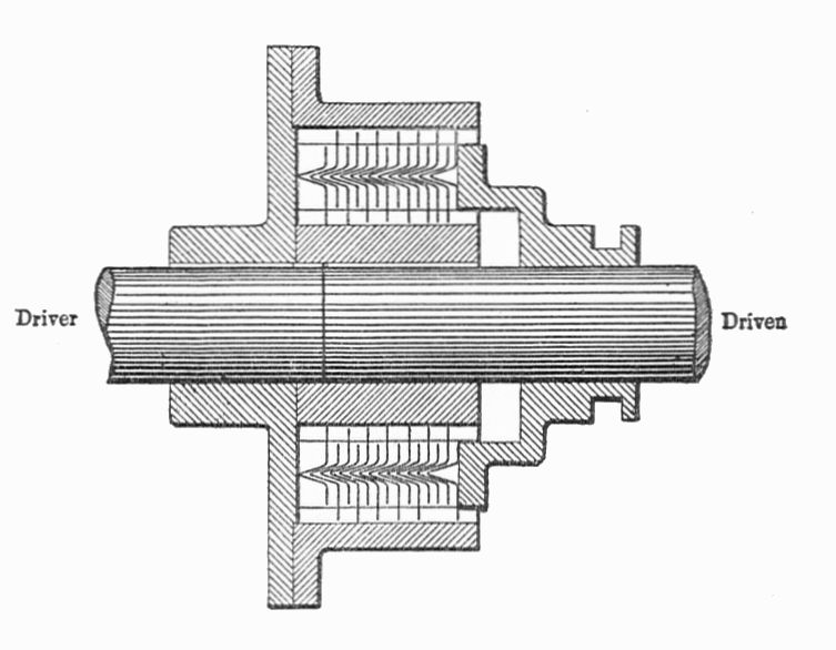 Hele Shaw clutch, section (Rankin Kennedy, Modern Engines, Vol II).jpg